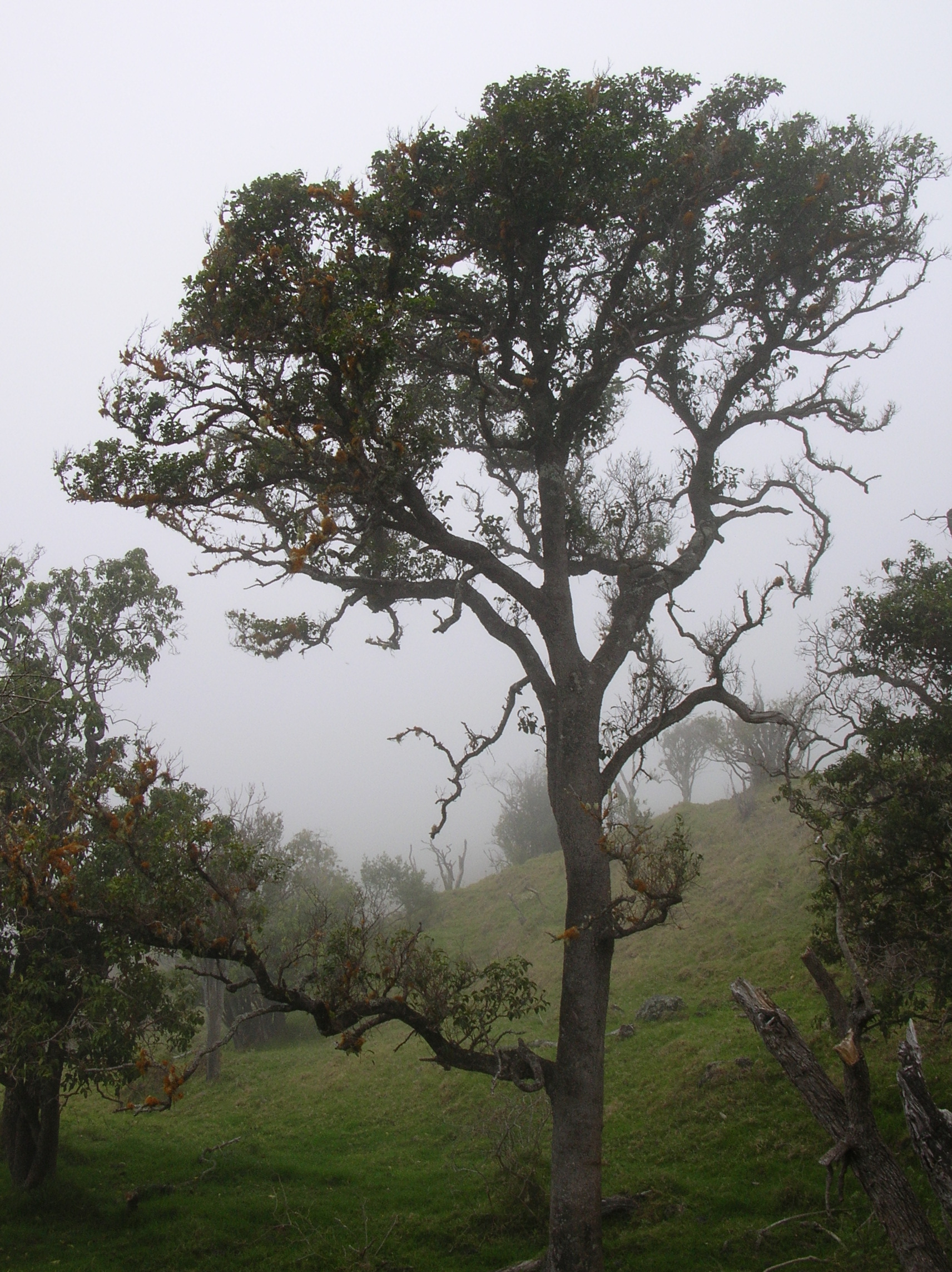 Xylosma hawaiiense (habit). Location: Maui, Auwahi